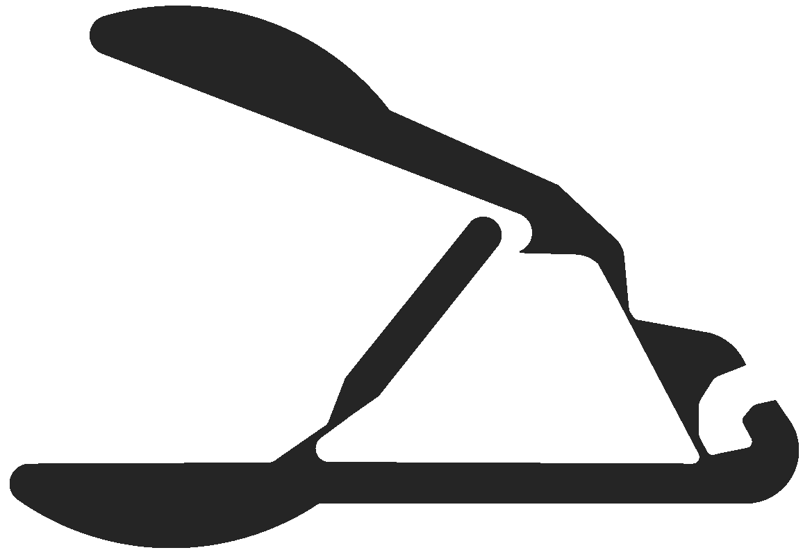 A single-body compliant plier (vice grip) mechanism. The diagonal link gets in contact with the nearby upper empty space when closed.